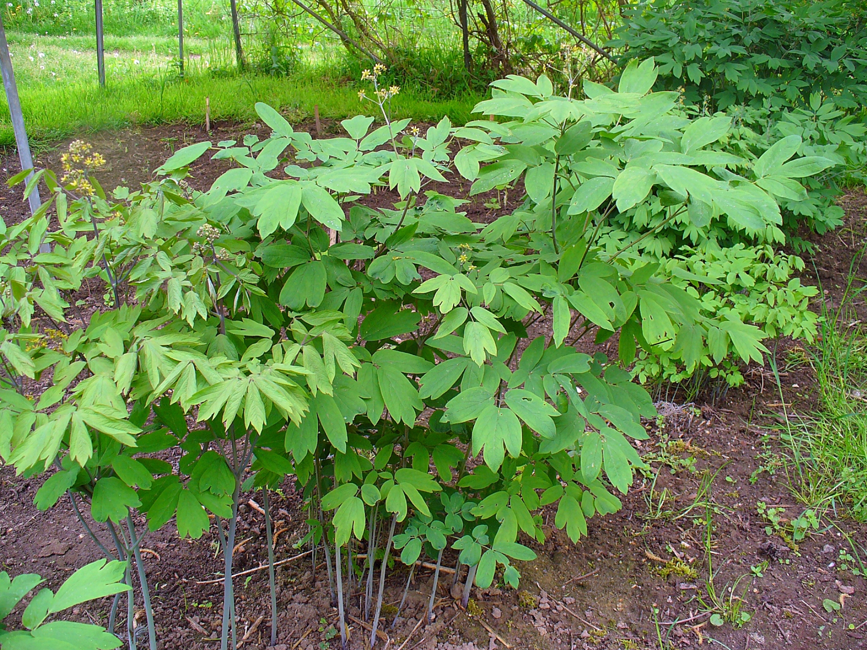 Caulophyllum thalictroides, Blue cohosh, habitus; Stutensee, Germany